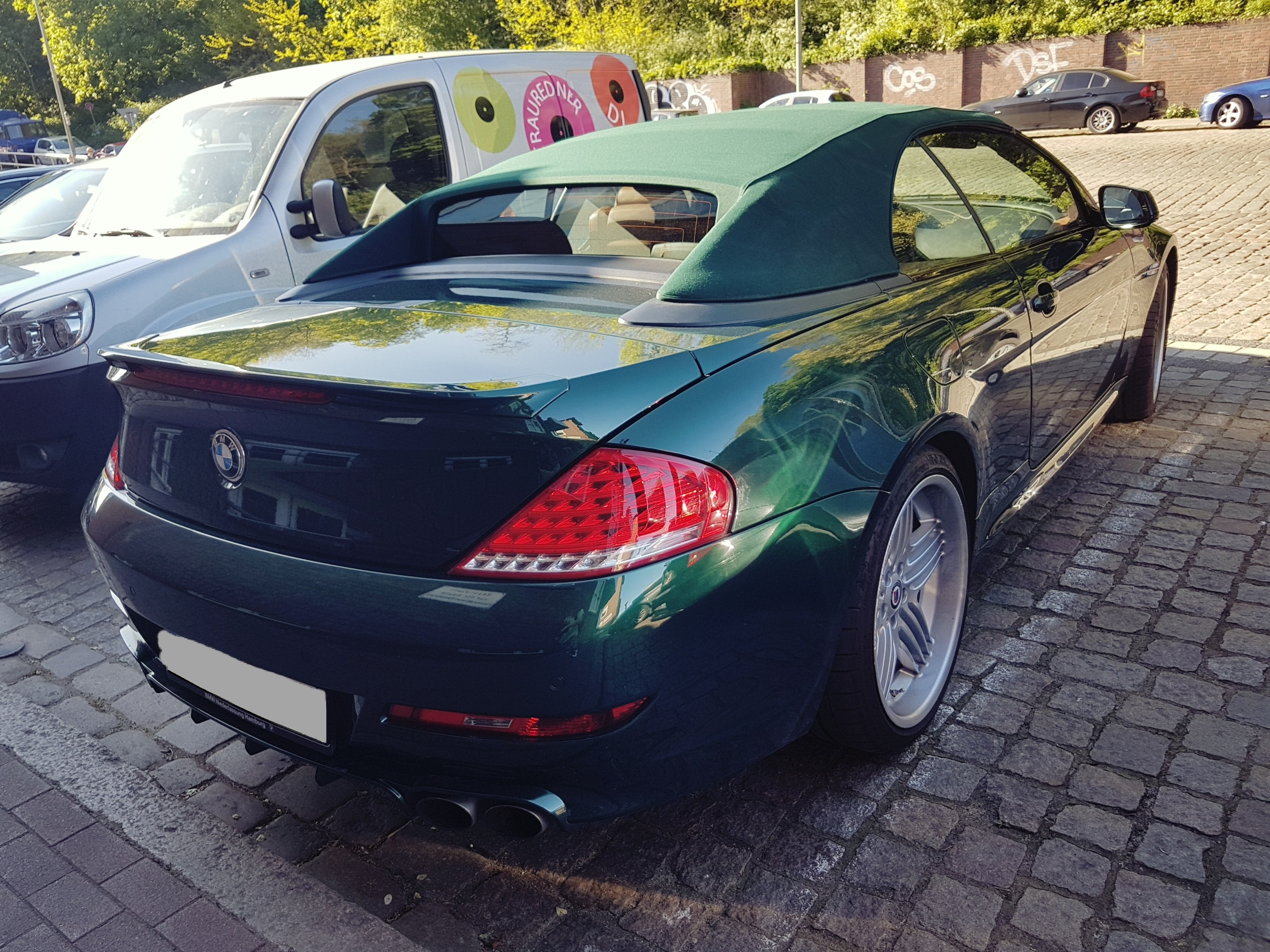 Alpina B6S Convertible Rear